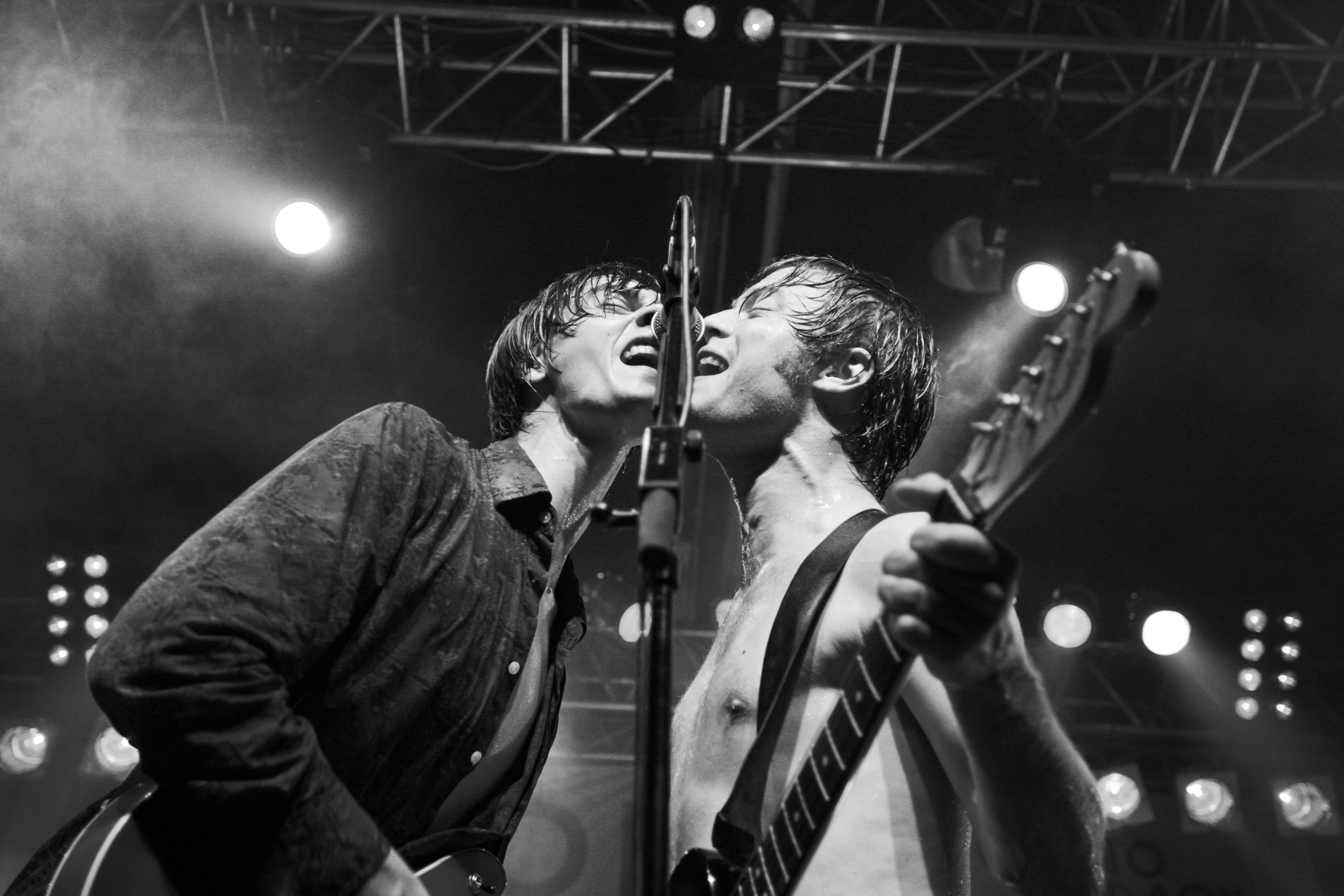 Björn Dixgård and Gustaf Norén from Mando Diao